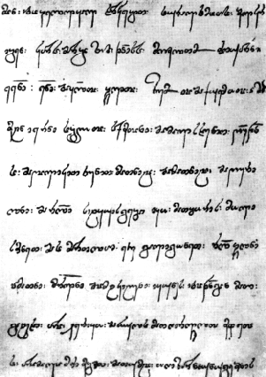 A charter of Bagrat IV of Georgia, 1060-1065. One of the earliest documents written in the mkhedruli script of the Georgian alphabet